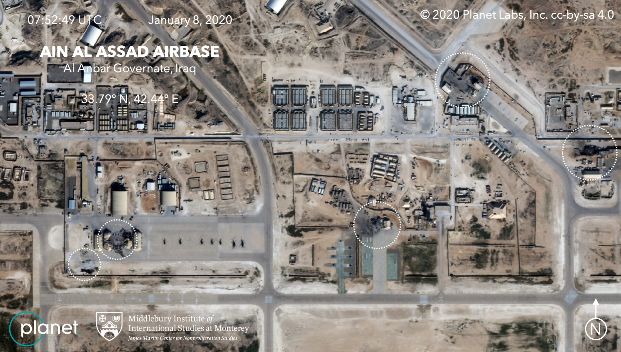 Satellite image, showing the damage to at least five structures at Ain al-Assad air base in Iraq in a series of precision missile strikes launched by Iran